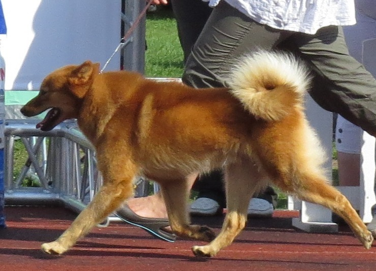 Finnish Spitzin in Tallinn duo CACIB, 17-18 Aug 2013, Best in Puppies competition